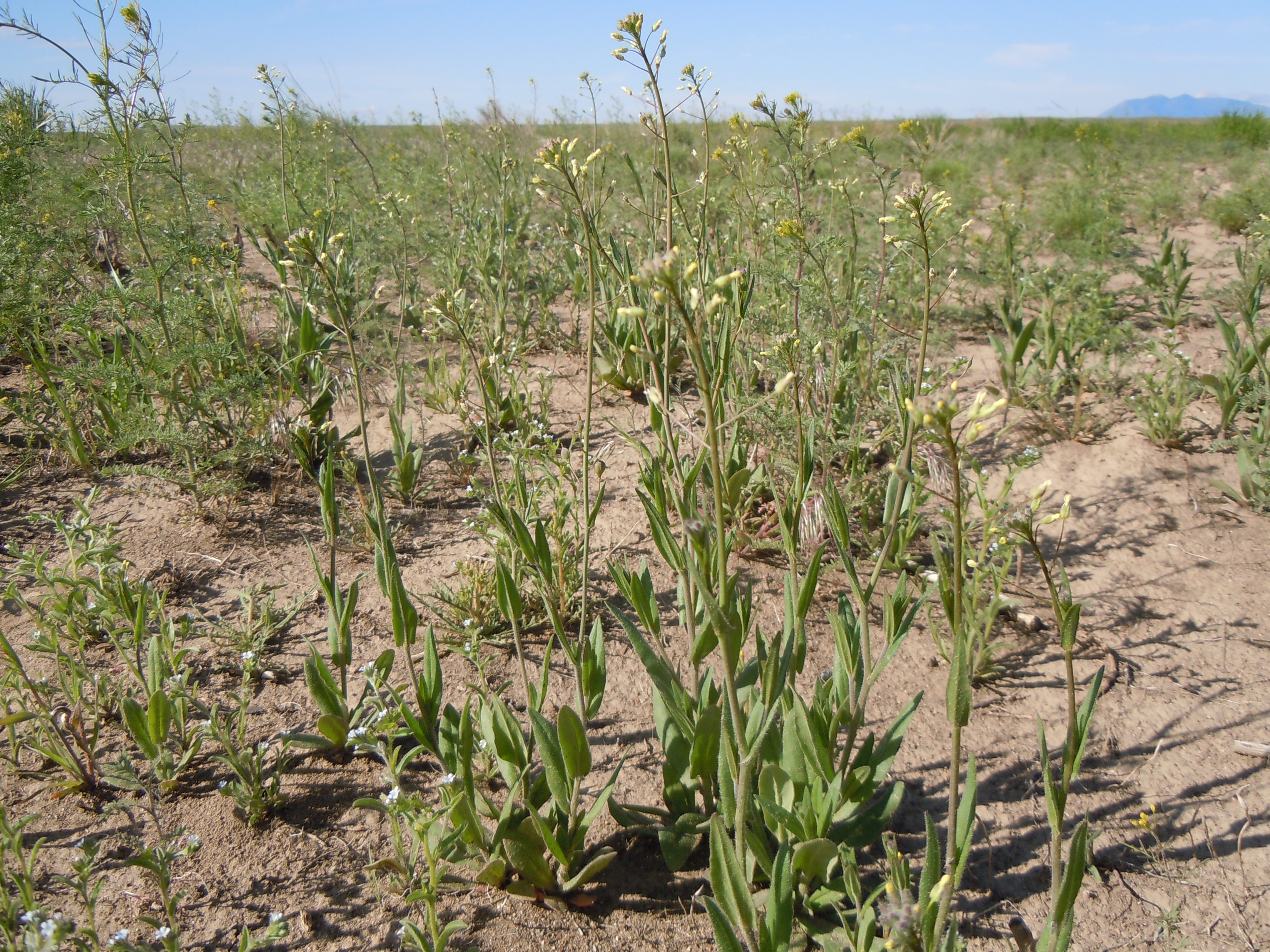 Camelina microcarpa growing most conspicuously in post-fire vegetation from the 2010 Jefferson fire. [RD28 between PBF and MFC.]